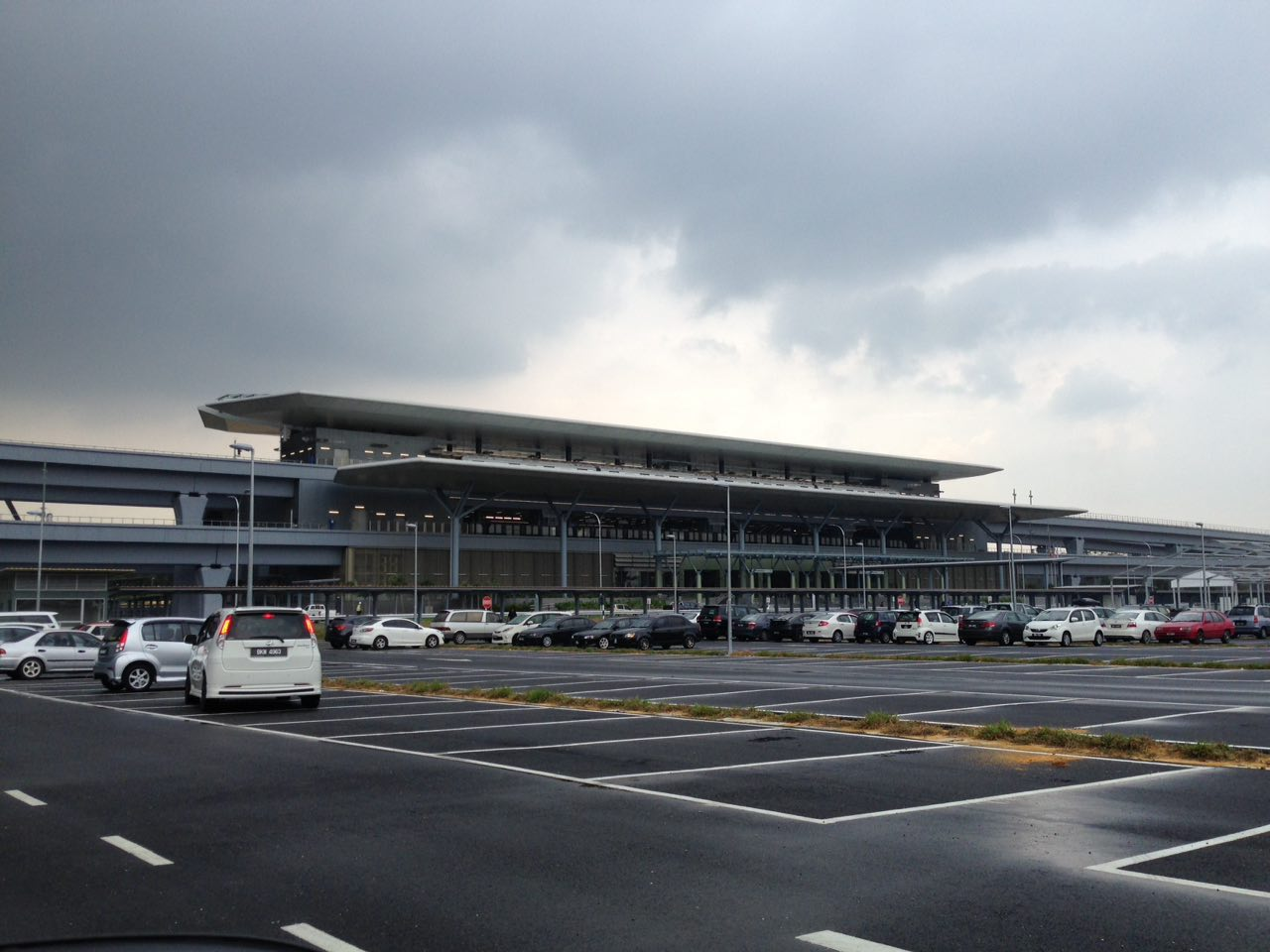 SBK04 Kwasa Damansara station